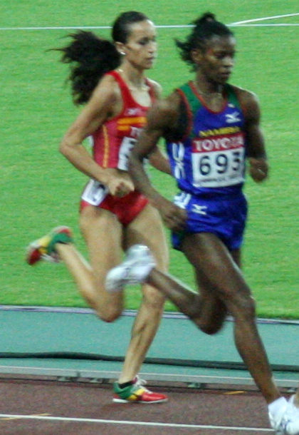 World Athletics Championships 2007 in Osaka - Scene from the women's 1500 metres final: Iris Fuentes-Pila, Agnes Samaria